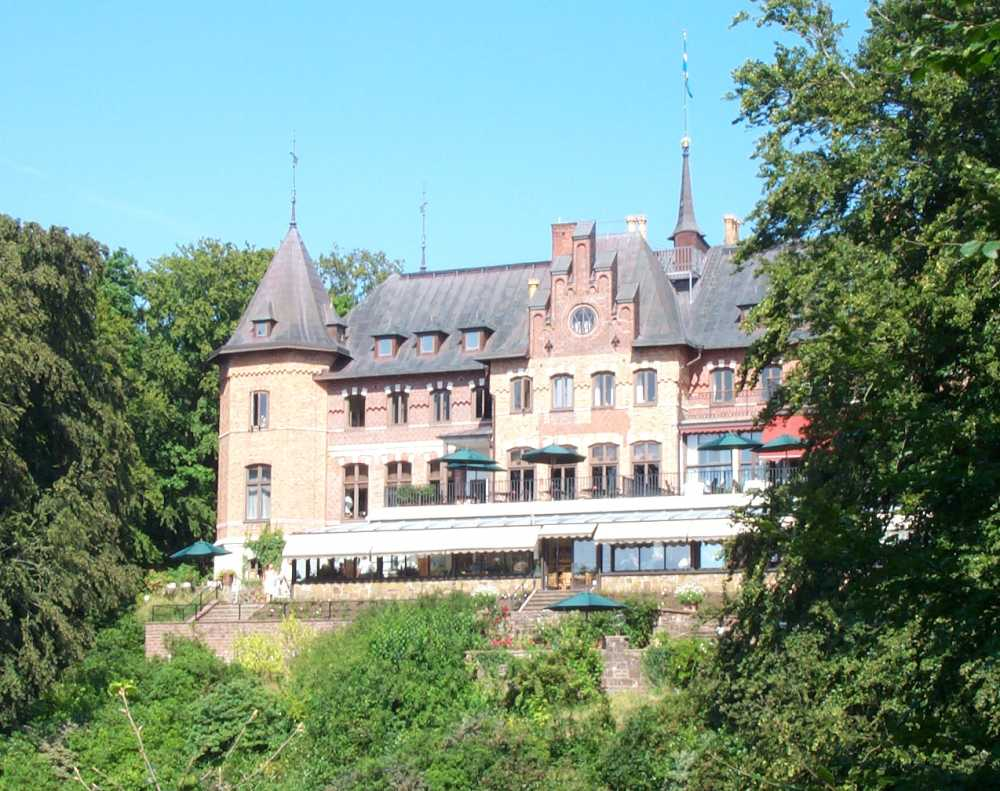 Swedish castle Sofiero